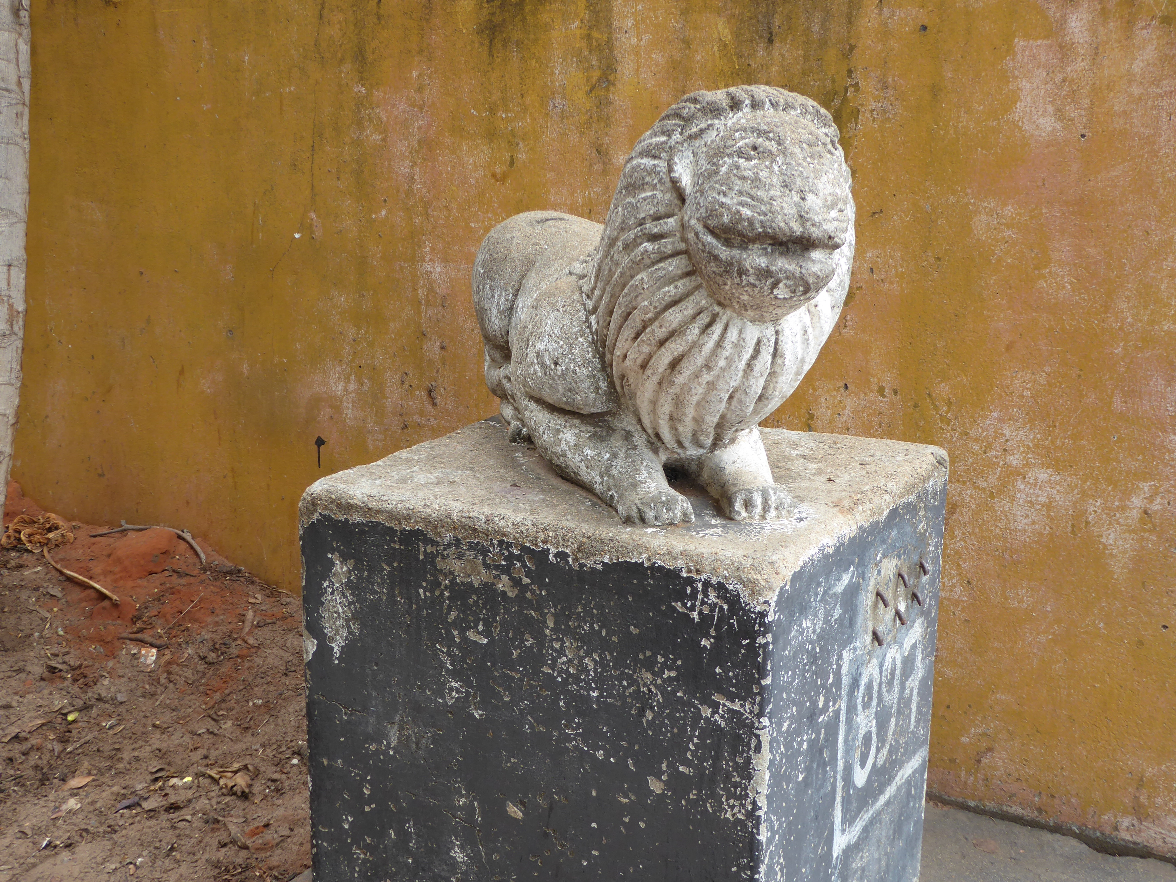 Statue at the O Leão Que Ri building, Maputo, Mozambique